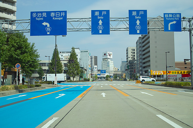 The National Route 19 at Ozone 4-chome intersection in Kita-ku, Nagoya City. The Aichi Prefectural Road and Gifu Prefectural Road Route 15 starts here